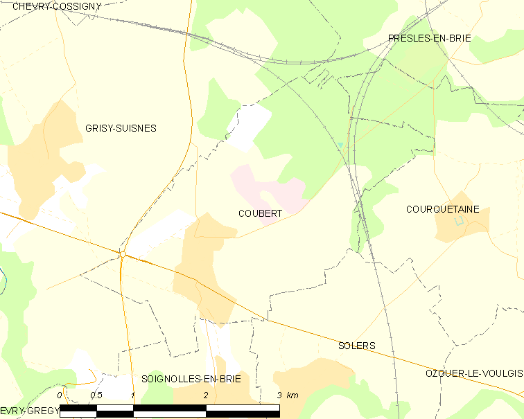 Map of French municipality Coubert